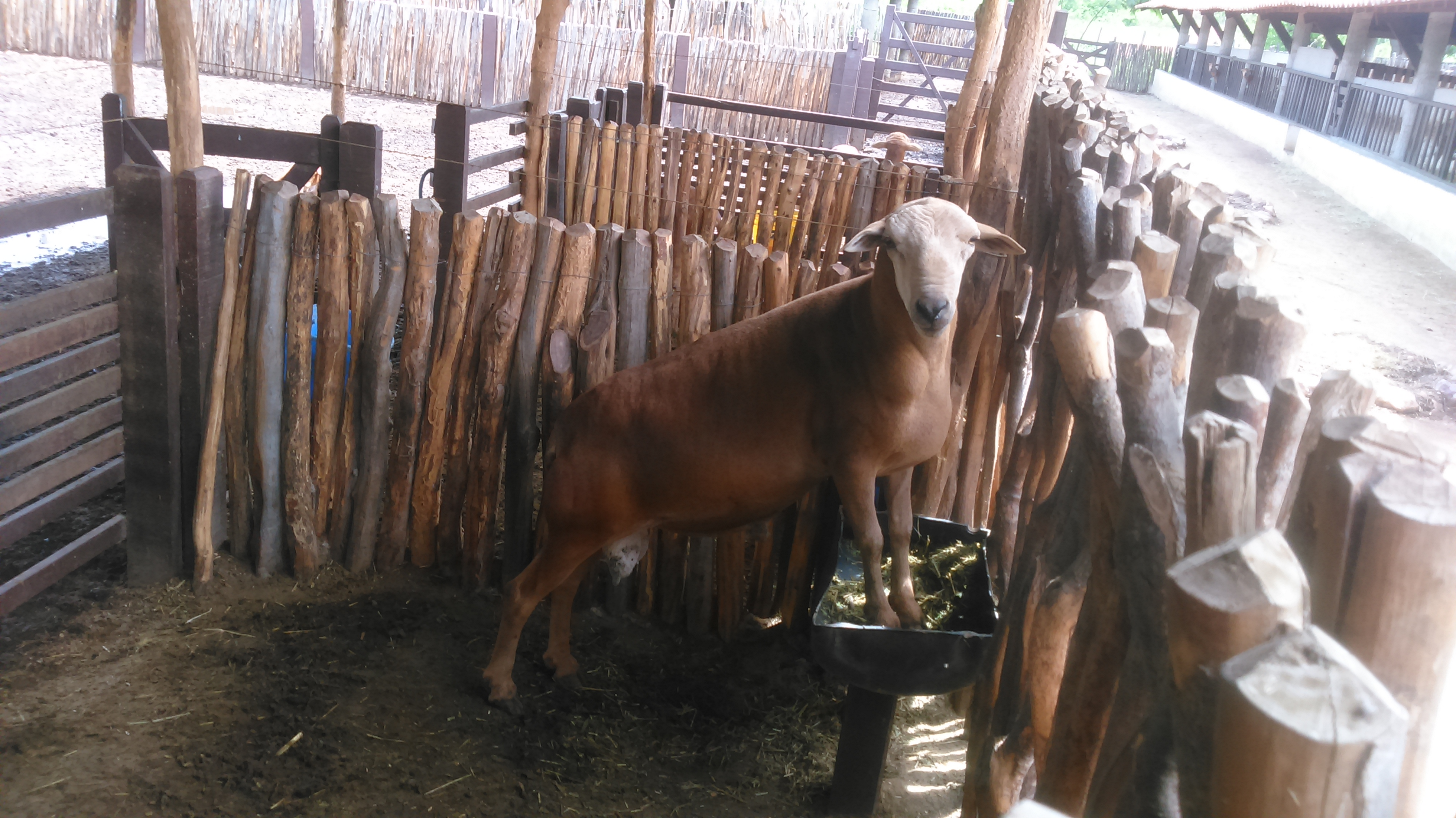 Sheep breeder Morada Nova